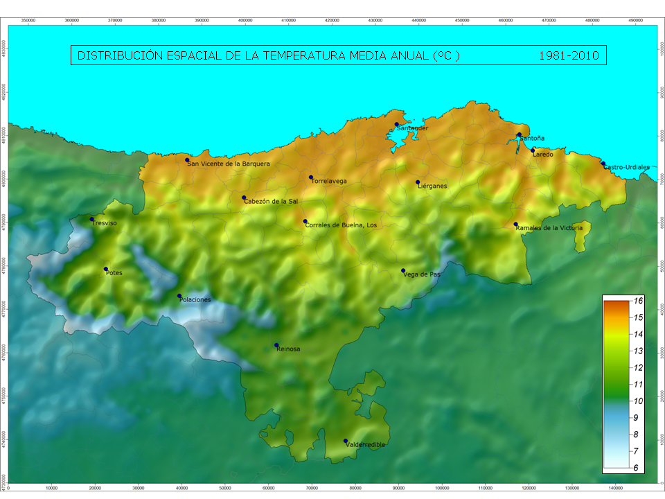 Spatial distribution of mean annual temperature in Cantabria.